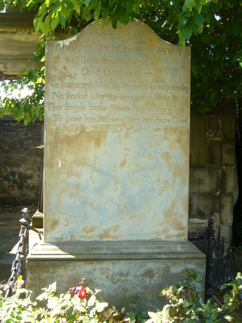 Robert Fergusson's gravestone. The stone was raised by Robert Burns who, on visiting Edinburgh twelve years after Fergusson's death, was shocked to find no memorial stone over the poet's grave. Burns commissioned the stone from the architect Robert Burn who later designed the Nelson Monument on the Calton Hill. It was erected in 1792 bearing lines written by Burns: "No Sculptur'd marble here, nor pompous lay, No storied Urn, nor animated Bust; This simple Stone directs Pale Scotia's way To pour her Sorrows o'er the Poet's Dust." 51022 .